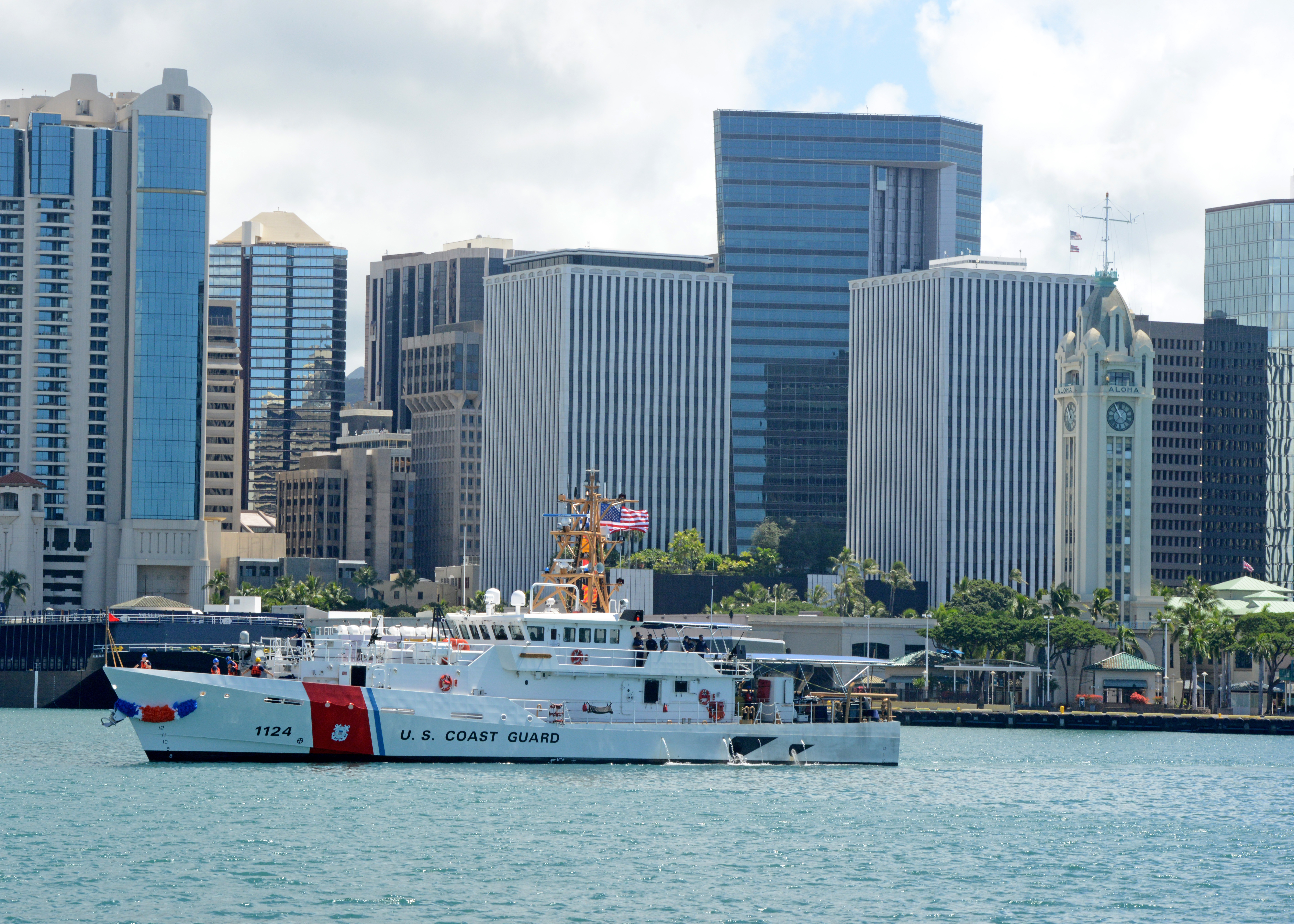 The Coast Guard Cutter Oliver Berry (WPC 1124) passes by Aloha Tower in Honolulu Harbor while en route to Coast Guard Base Honolulu, Sept. 22, 2017. The Oliver Berry is the first of three 154-foot fast response cutters stationed in Hawaii. (U.S. Coast Guard photo by Petty Officer 2nd Class Tara Molle/Released)